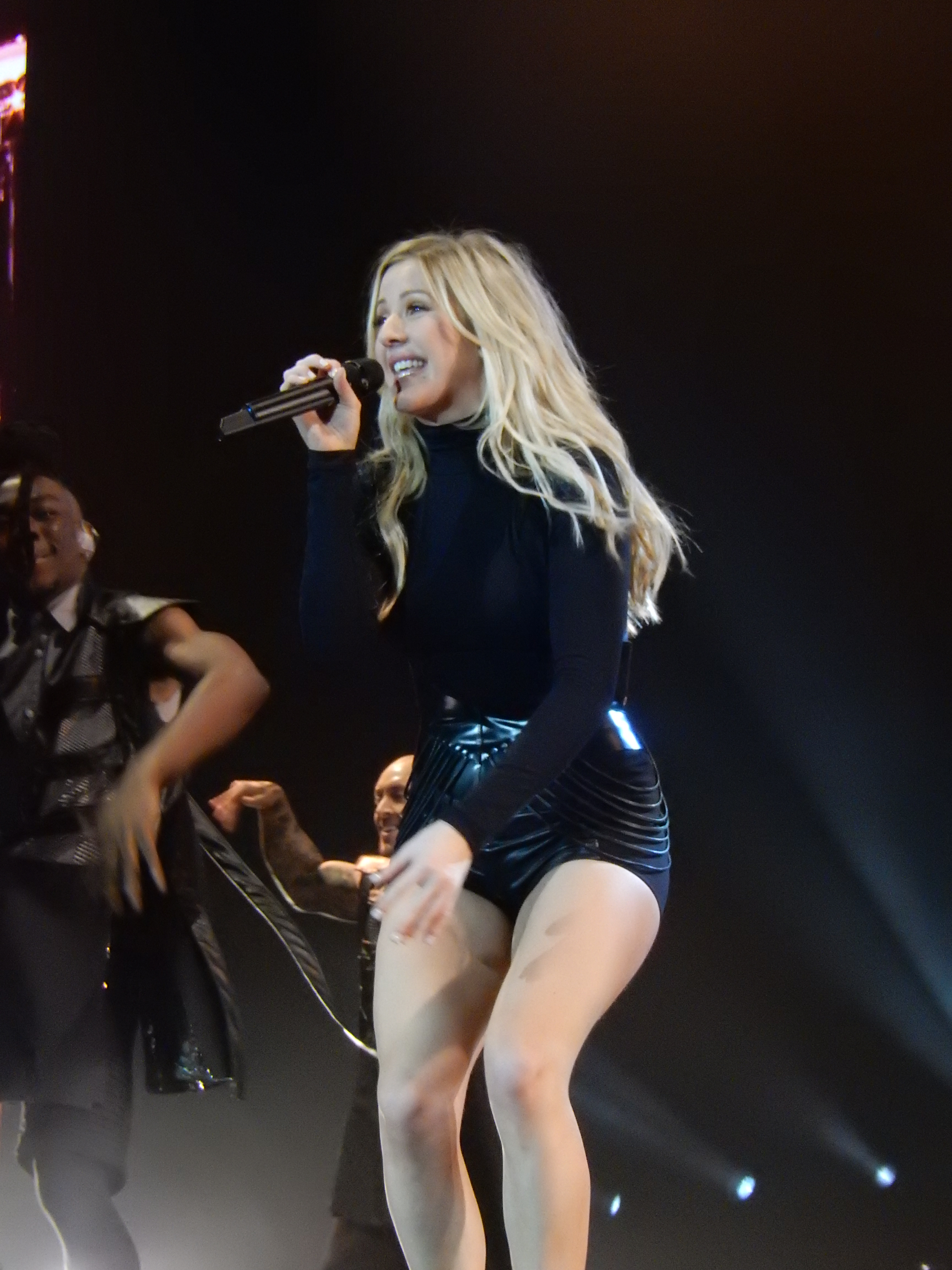 Ellie Goulding, O2 Arena, London